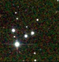 The multiple stars Messier 73